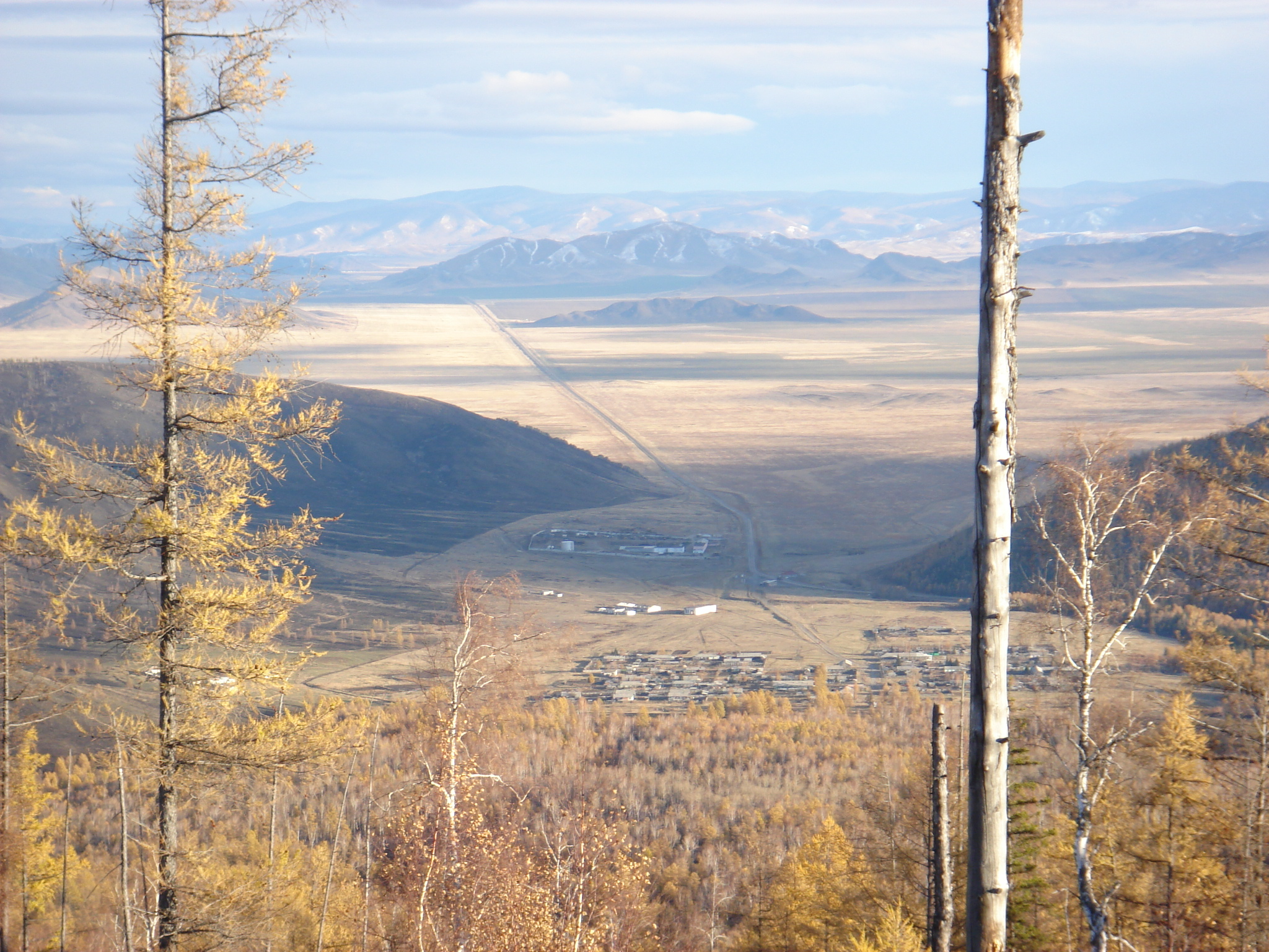 View on M54 road and Shivilig village from "Nolyovka" (Zero) mountain pass